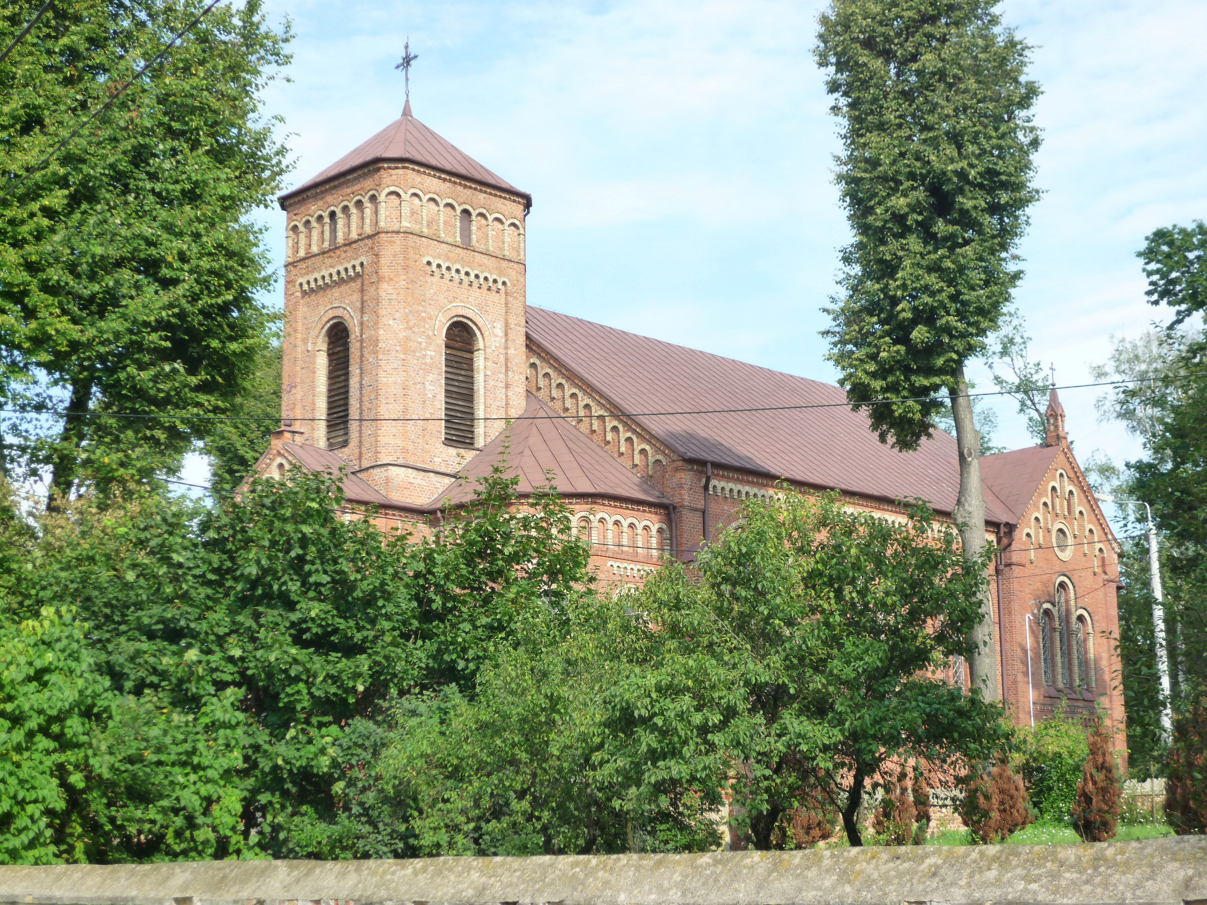 Parochial church of St. Michael Archangel in Jablonka Koscielna